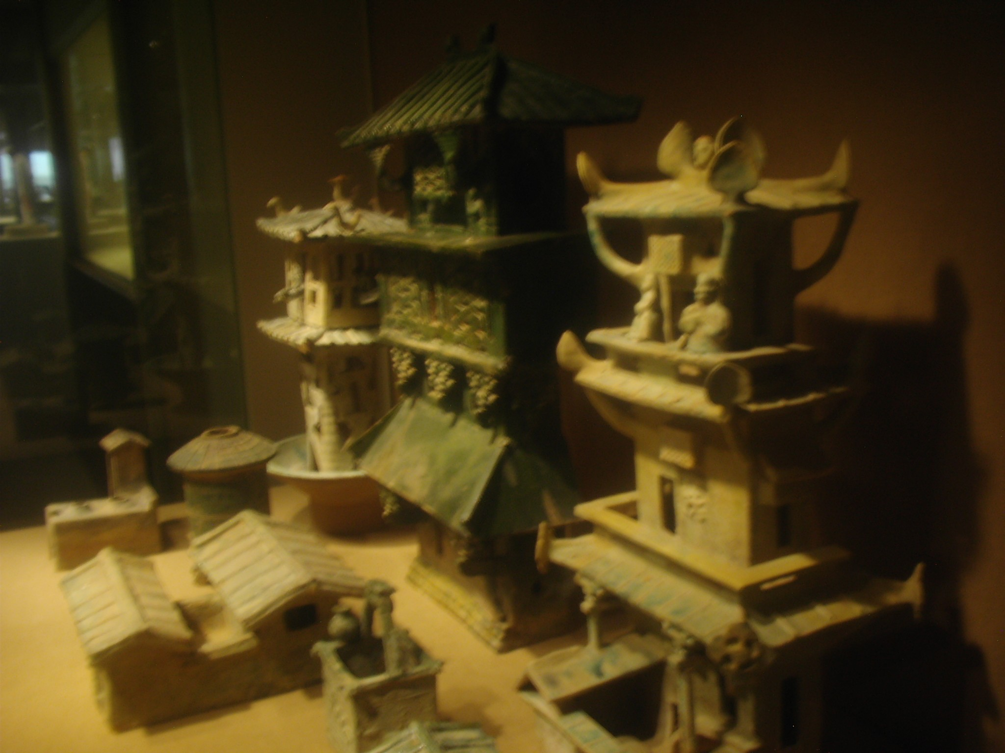 This is one of twelve pictures showing architectural models dated to the Chinese Eastern Han Dynasty (25–220 AD), made of earthenware with a green lead glaze, featured at the Metropolitan Museum of Art in New York City. The items include: Three watchtowers House with a courtyard Granary tower A large stove A mill A wellhead with a bucket Domesticated animal pens A square duck pond with rails